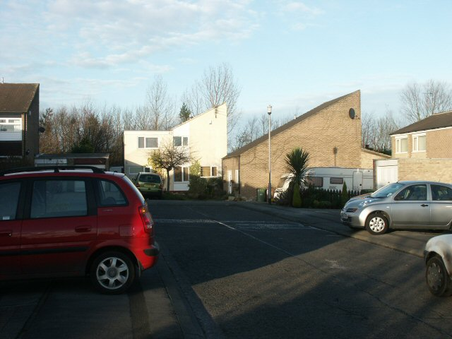 Housing in the Blackfell area of Washington, Tyne and Wear, Northeast England.